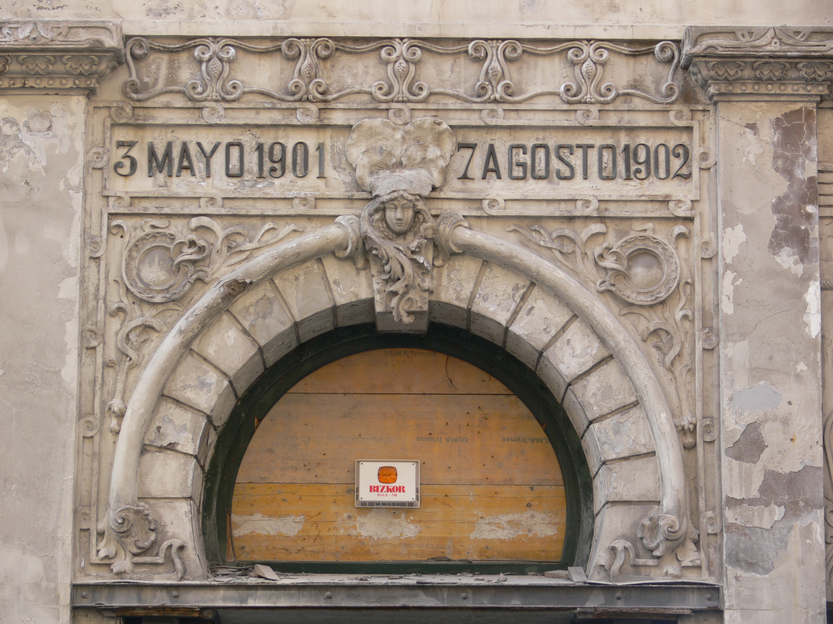 Teatro Campos Eliseos, Bilbao, façade detail during the restoration